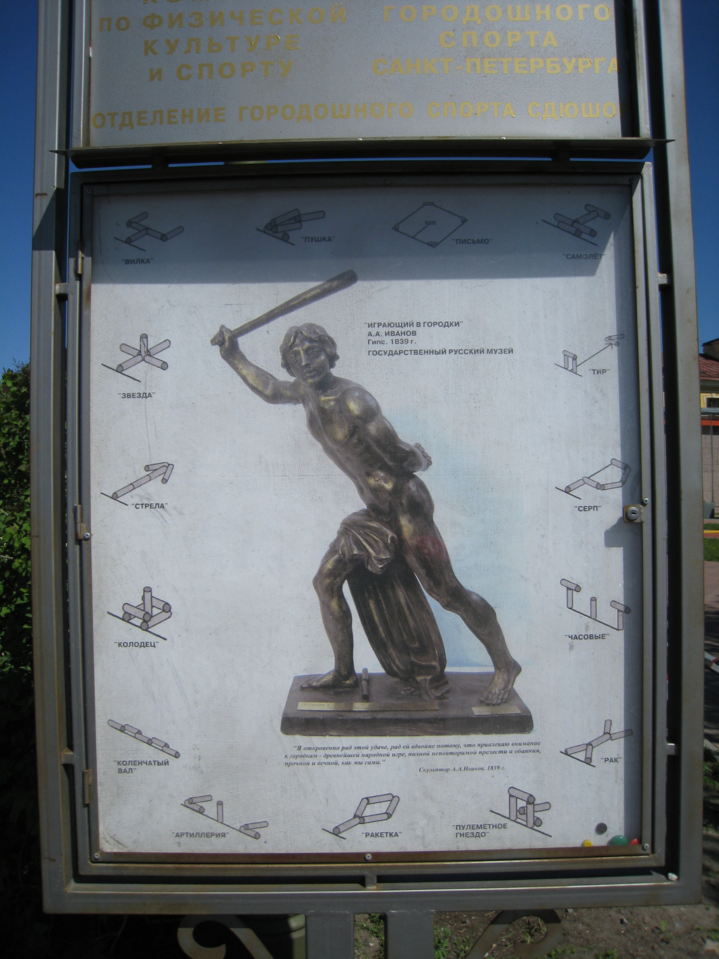 Gorodki. game information plate at St. petersburg, Russia